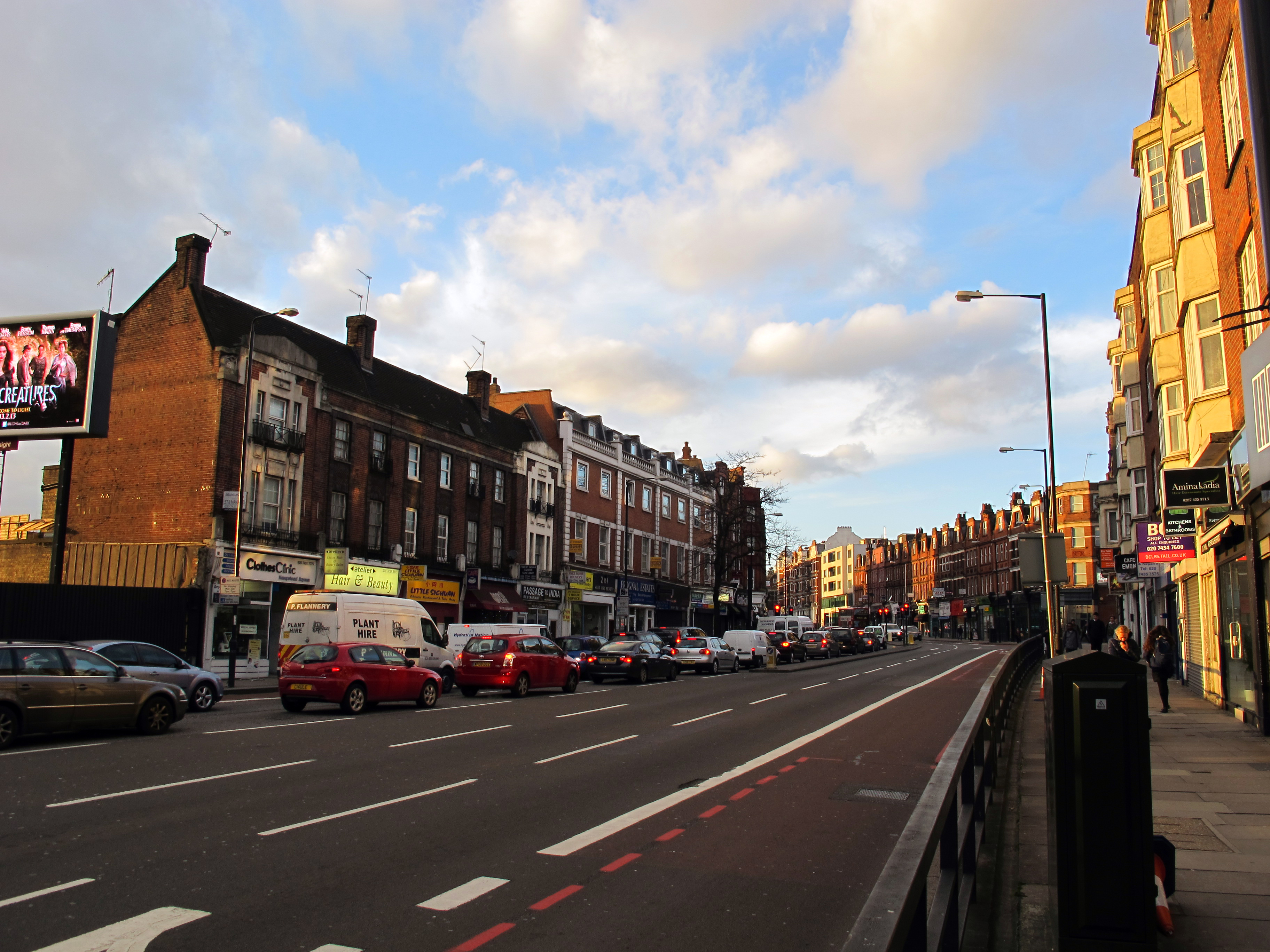 Looking south down Finchley Road in the Finchley Road district of Hampstead, London.